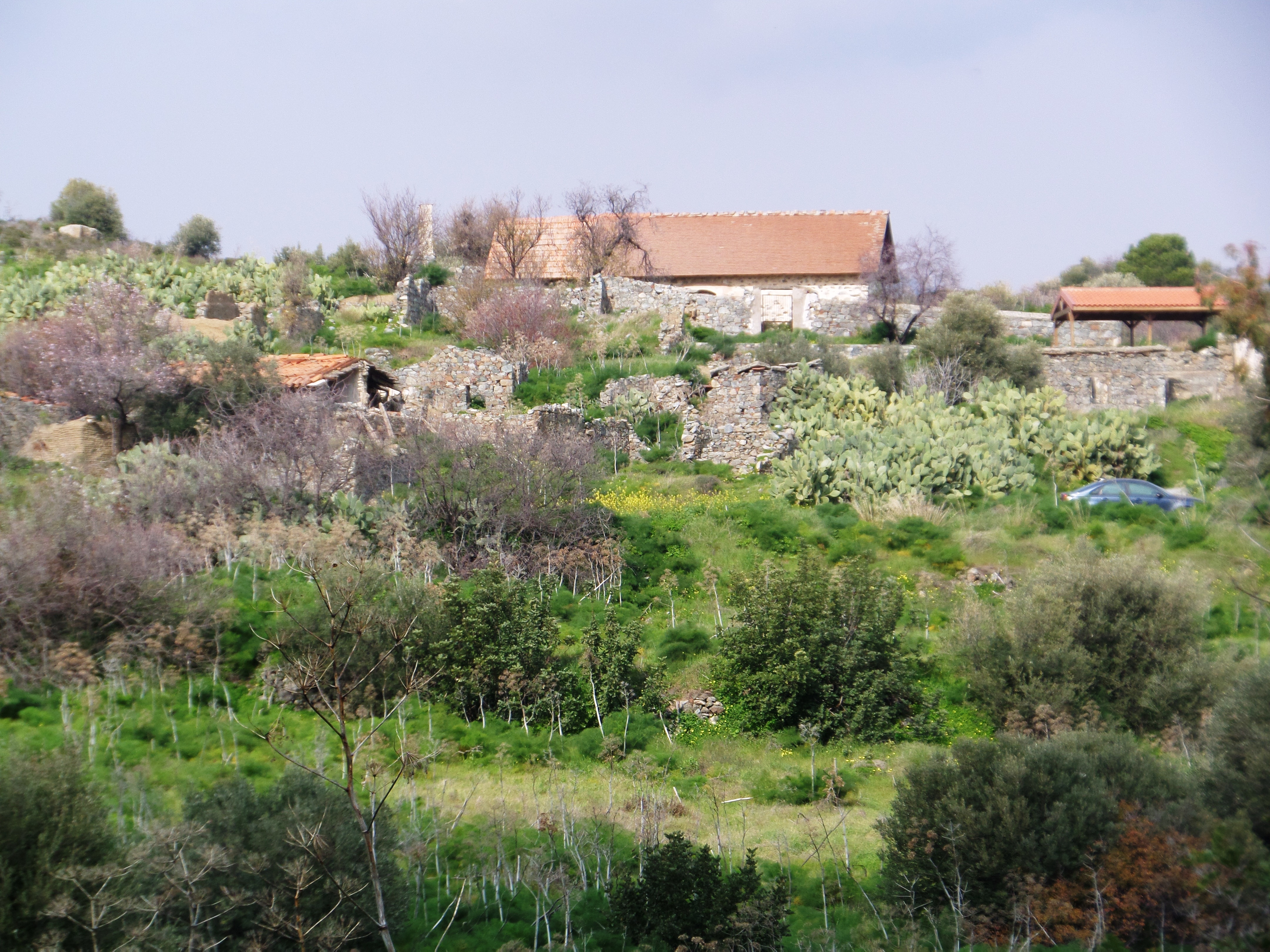 View of Vikla.